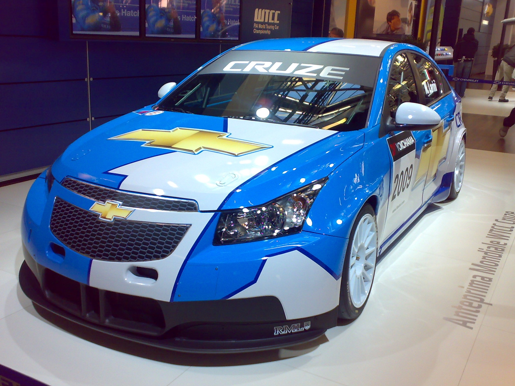 WTCC Chevrolet Cruze